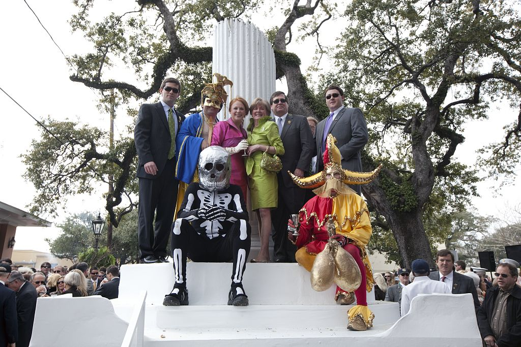 Order of Myths, Mobile's first and oldest Mardi Gras society, Mobile, Alabama.